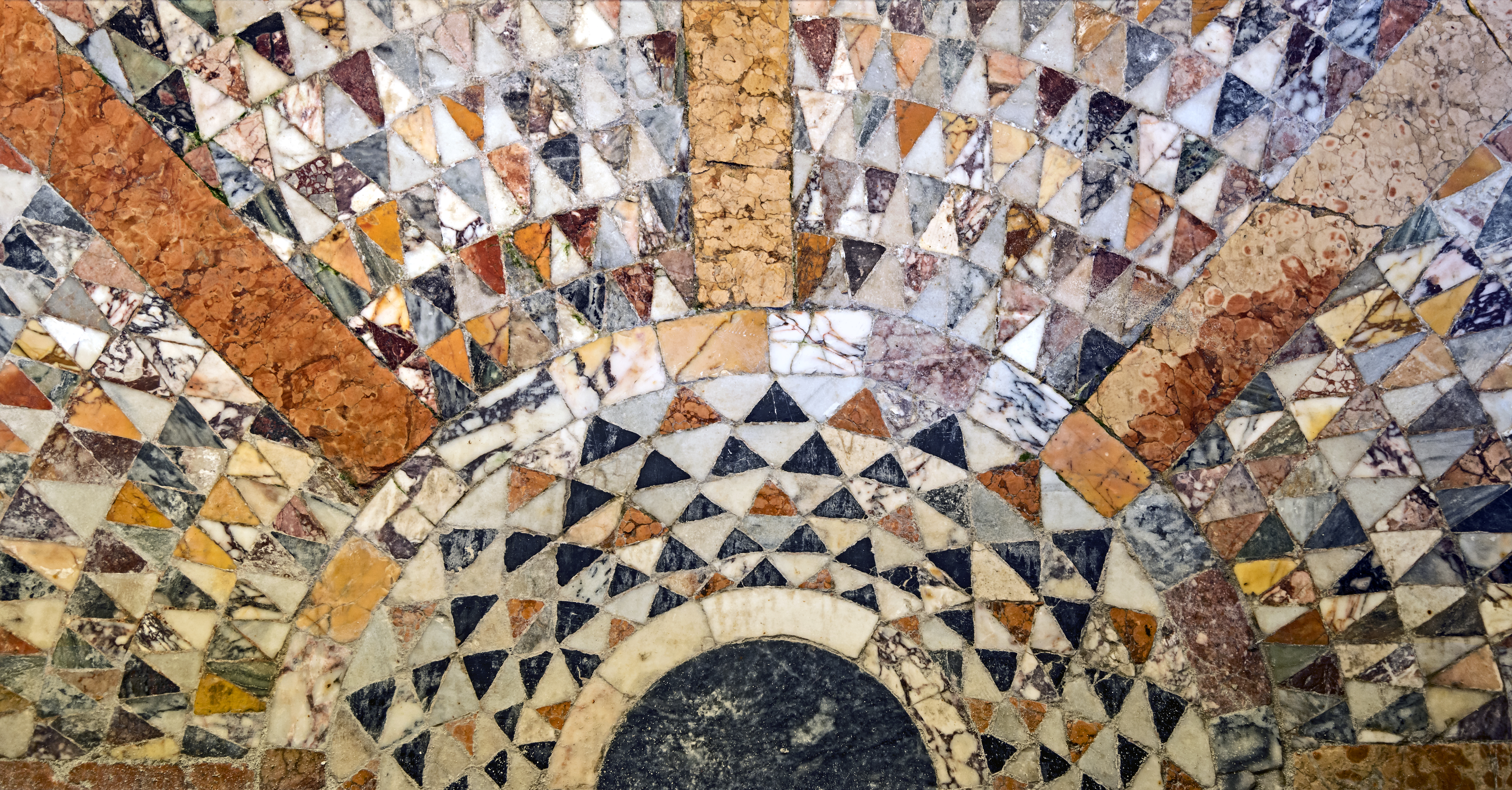 San Zaccaria in Venice - Mosaic of the Romanesque period, 14th century.